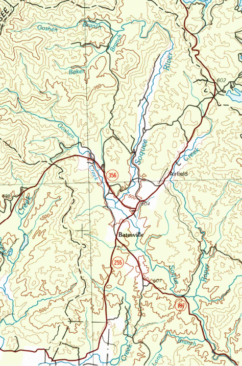 HUC 031300010201 topographical map, using the 1981 Toccoa 30x60 grid, showing the Soque River headwaters